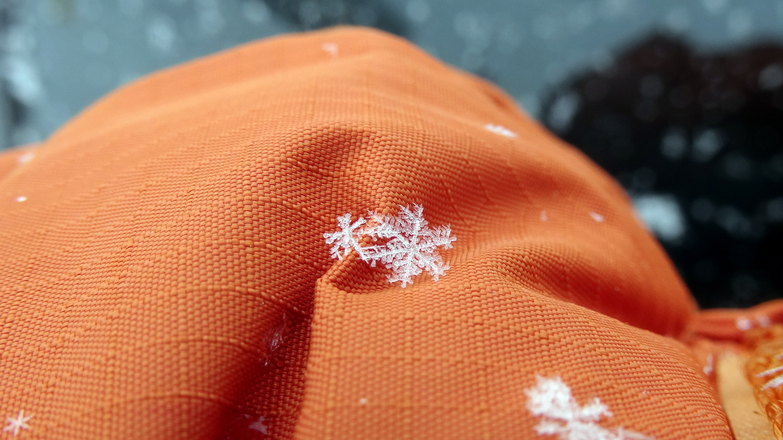 Snowflake on jacket.